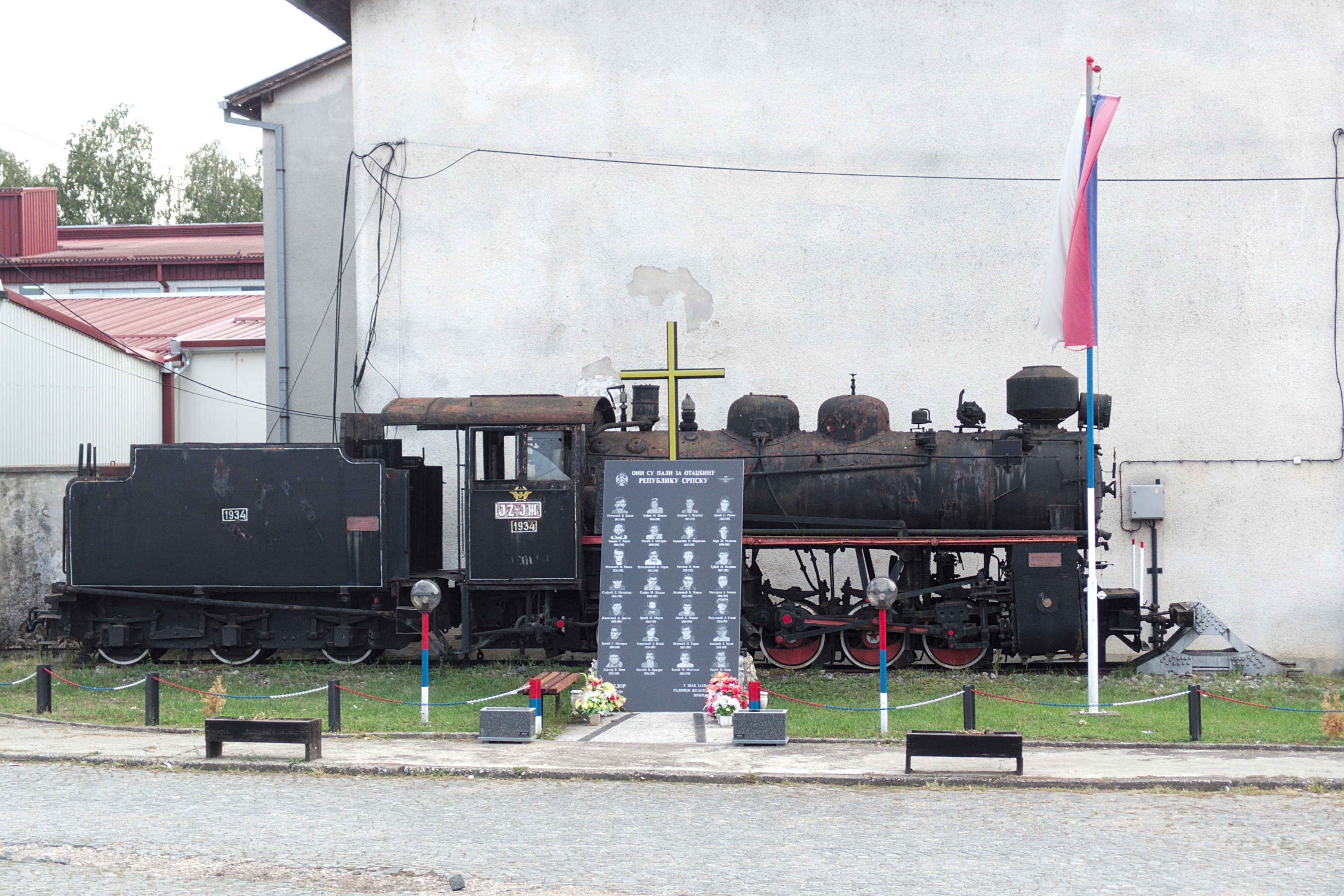 JŽ 1934 together with a war memorial at Prijedor station.